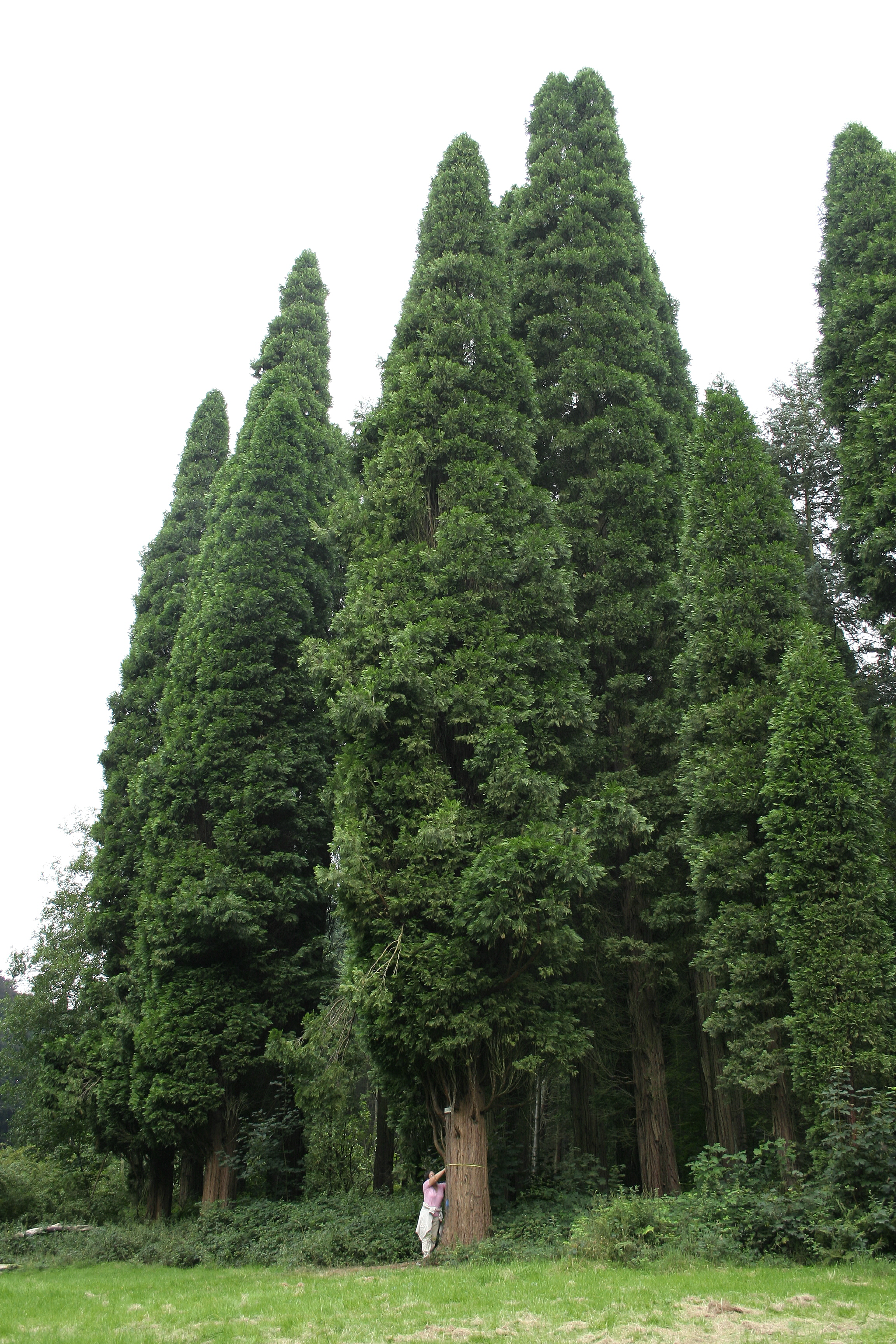 Incense cedar (Calocedrus decurrens).